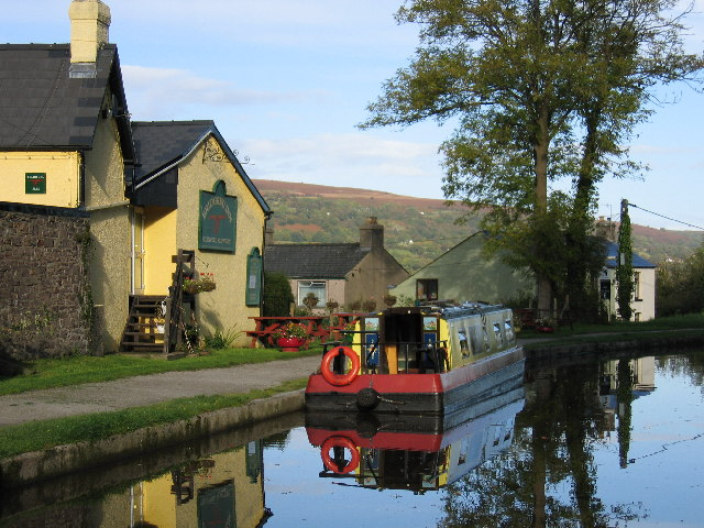 Monmouthshire and Brecon Canal, Baylis Bridge, Bridgend Inn, Gilwern.